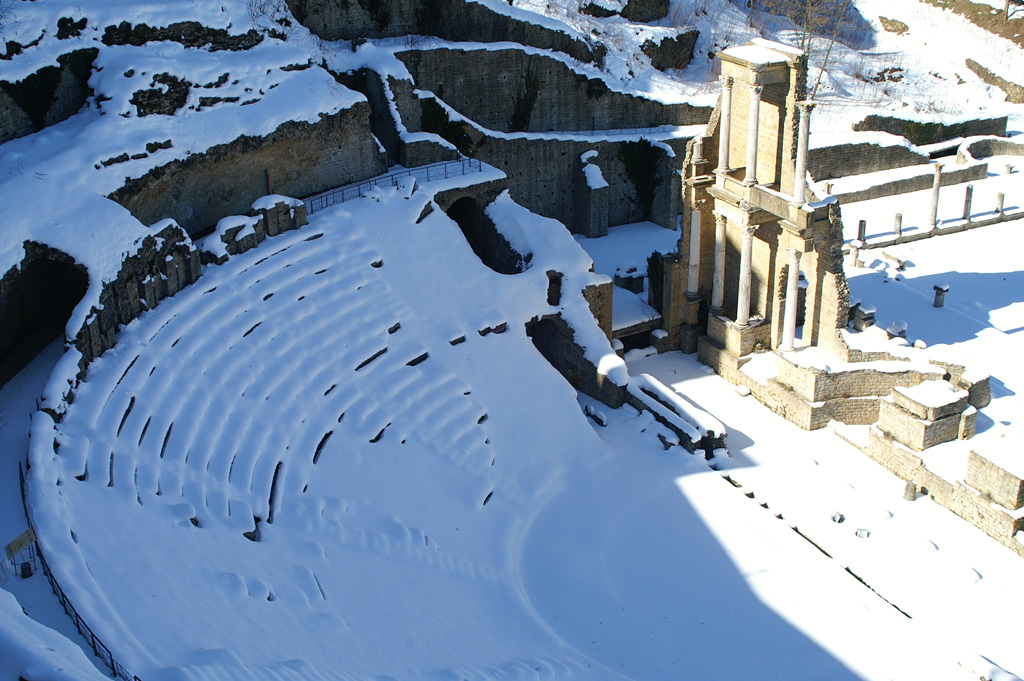 Roman theater of Volterra, Italy.